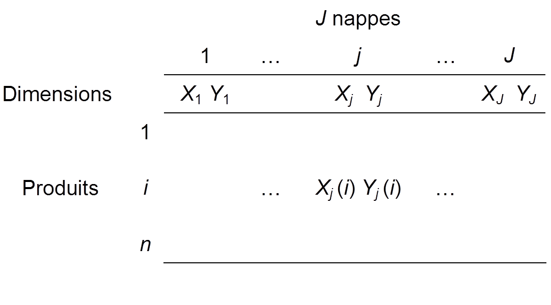 Figure 1 de l'article Napping